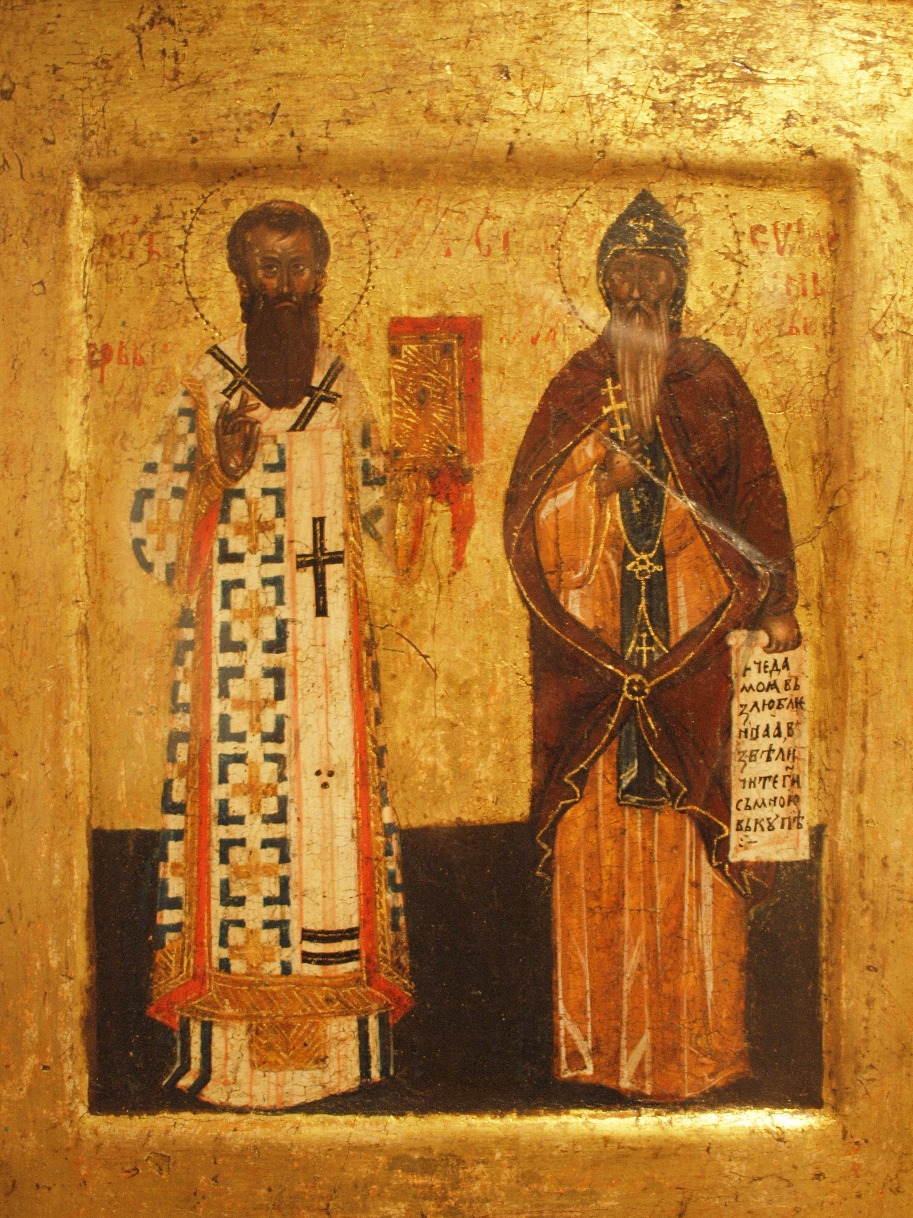 Sv Sava i Sv Simeon Nemanja, Belgrade National Museum, first half 14th century